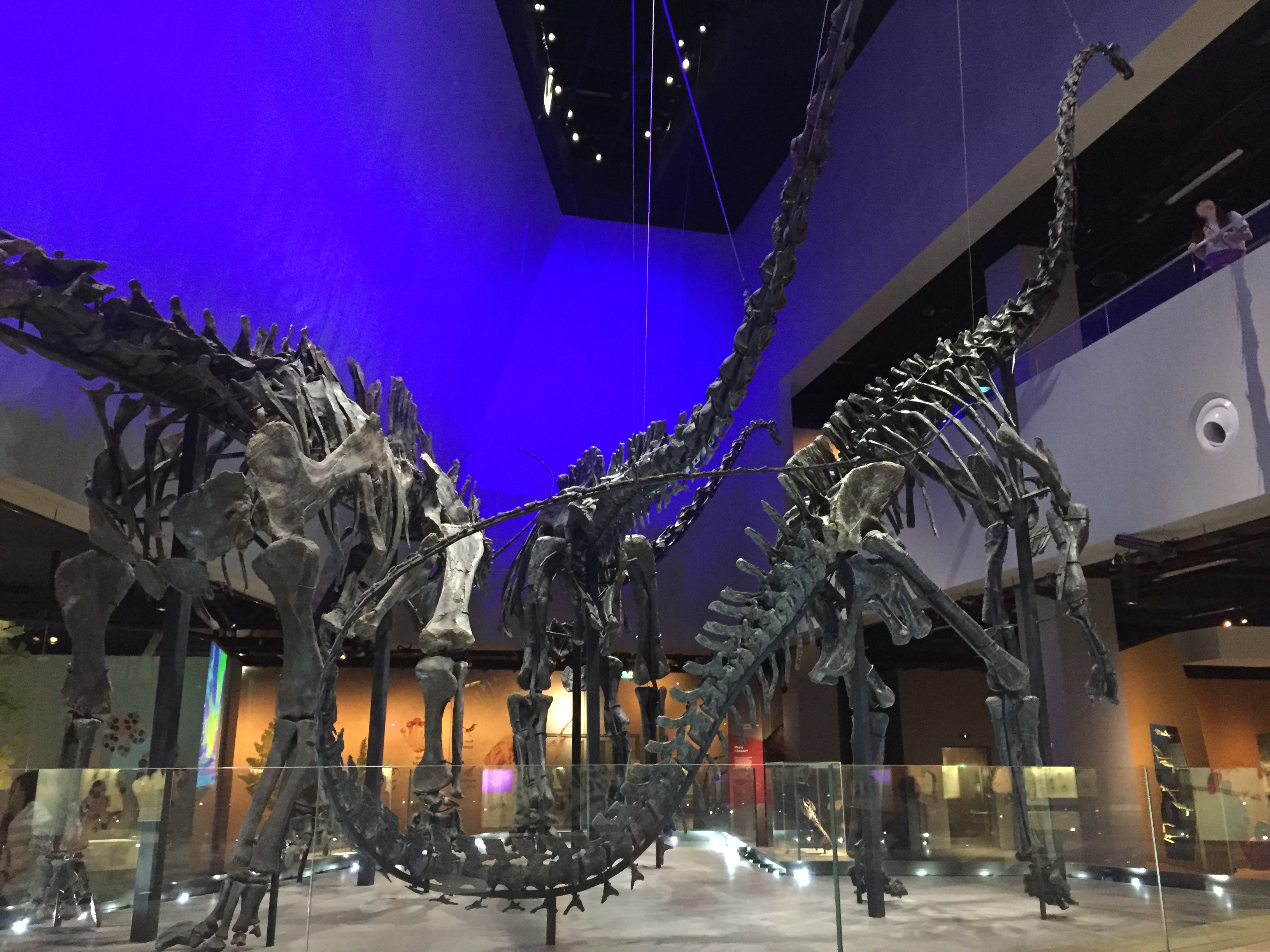 Three diplodocid sauropod dinosaur skeletons named "Apollonia", "Prince" and "Twinky" at the Lee Kong Chian Natural History Museum, National University of Singapore.